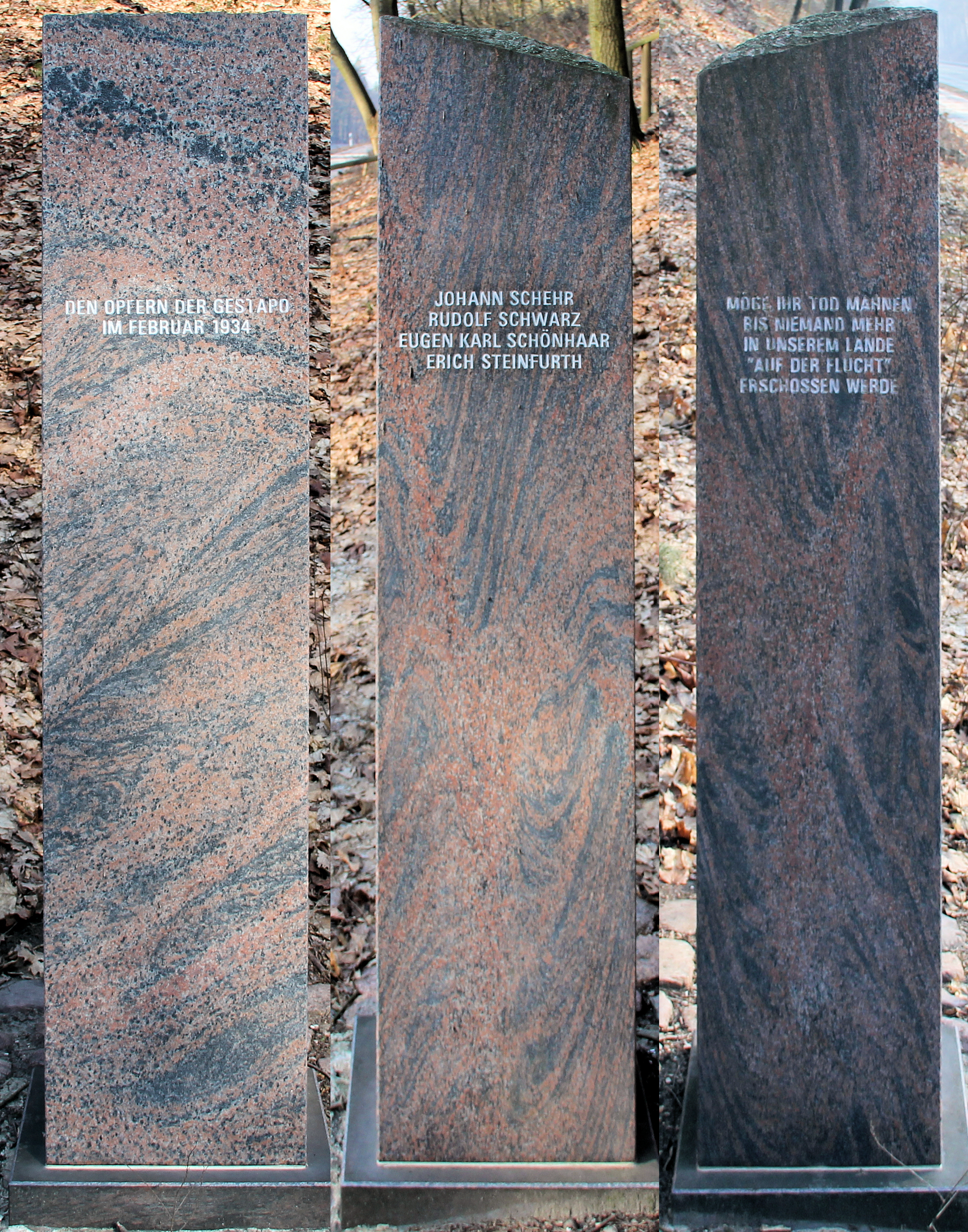 Memorial stone, John Schehr, Rudolf Schwarz, Erich Steinfurth, Eugen Schönhaar, Königstr , Berlin-Wannsee, Germany